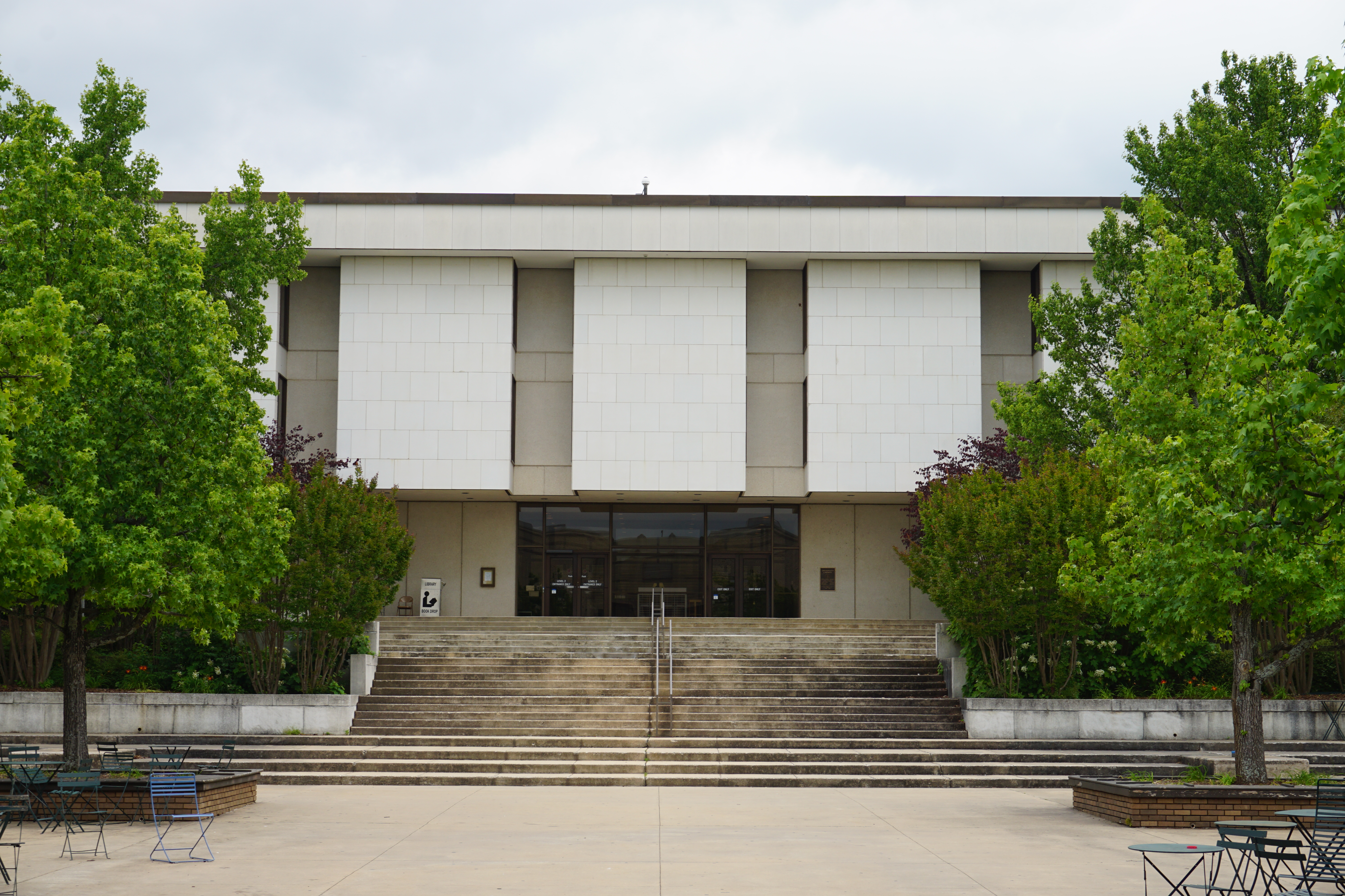 David W. Mullins Library on the campus of the University of Arkansas in Fayetteville, Arkansas (United States).